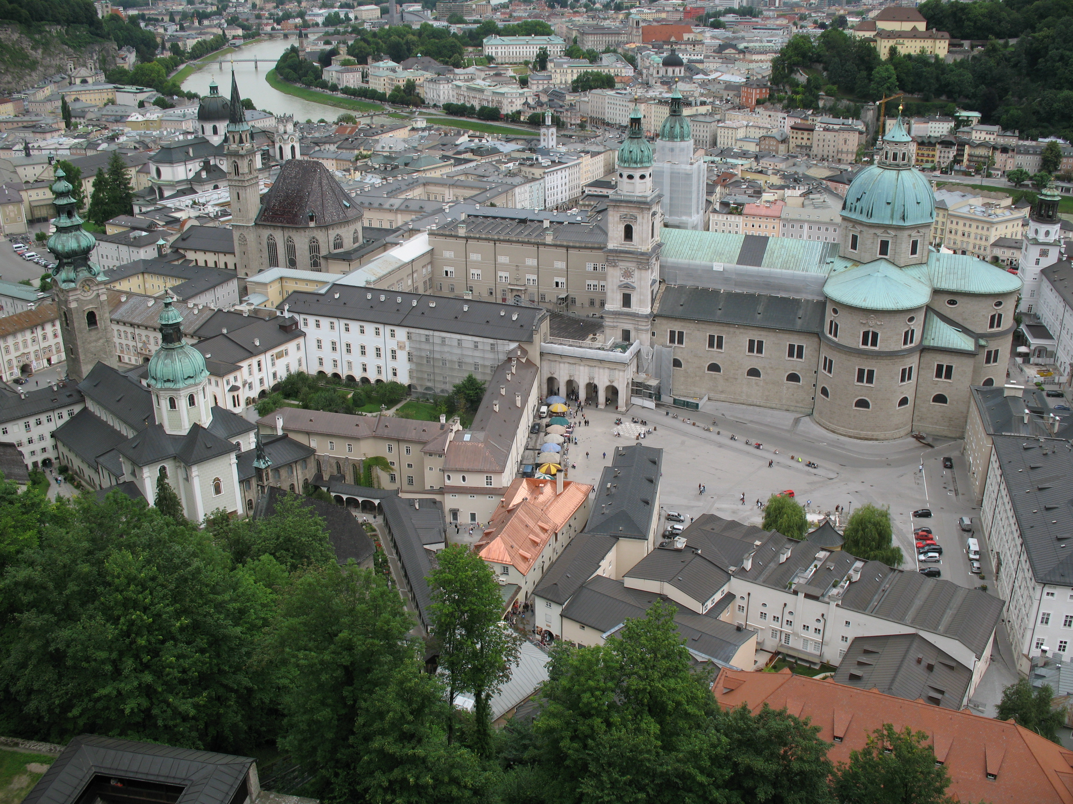 View from the High Fortress, Salzburg, Austria